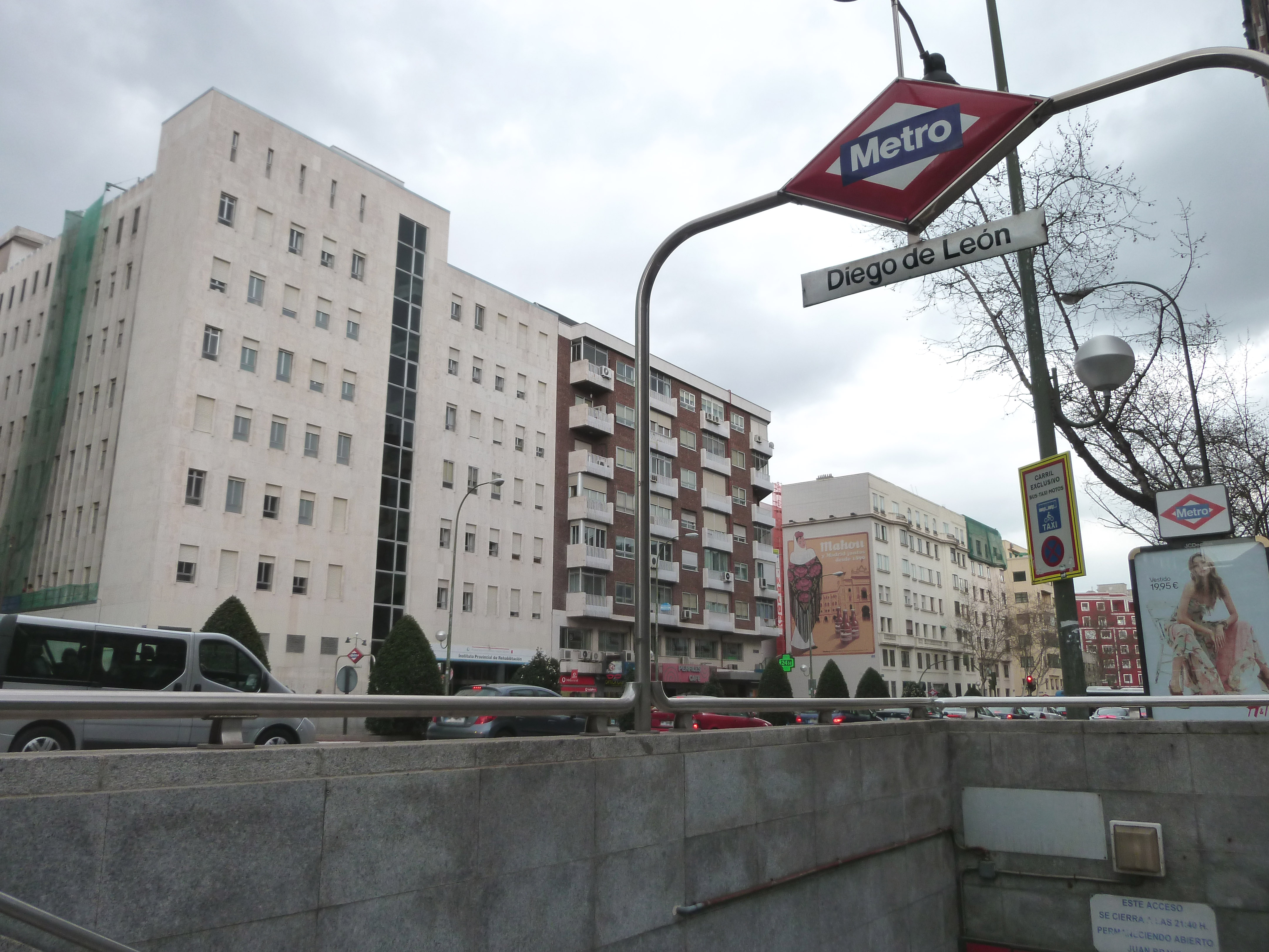 Entrance of Diego de León metro station in Madrid (Spain), at 47 Calle de Francisco Silvela (street, Salamanca district).